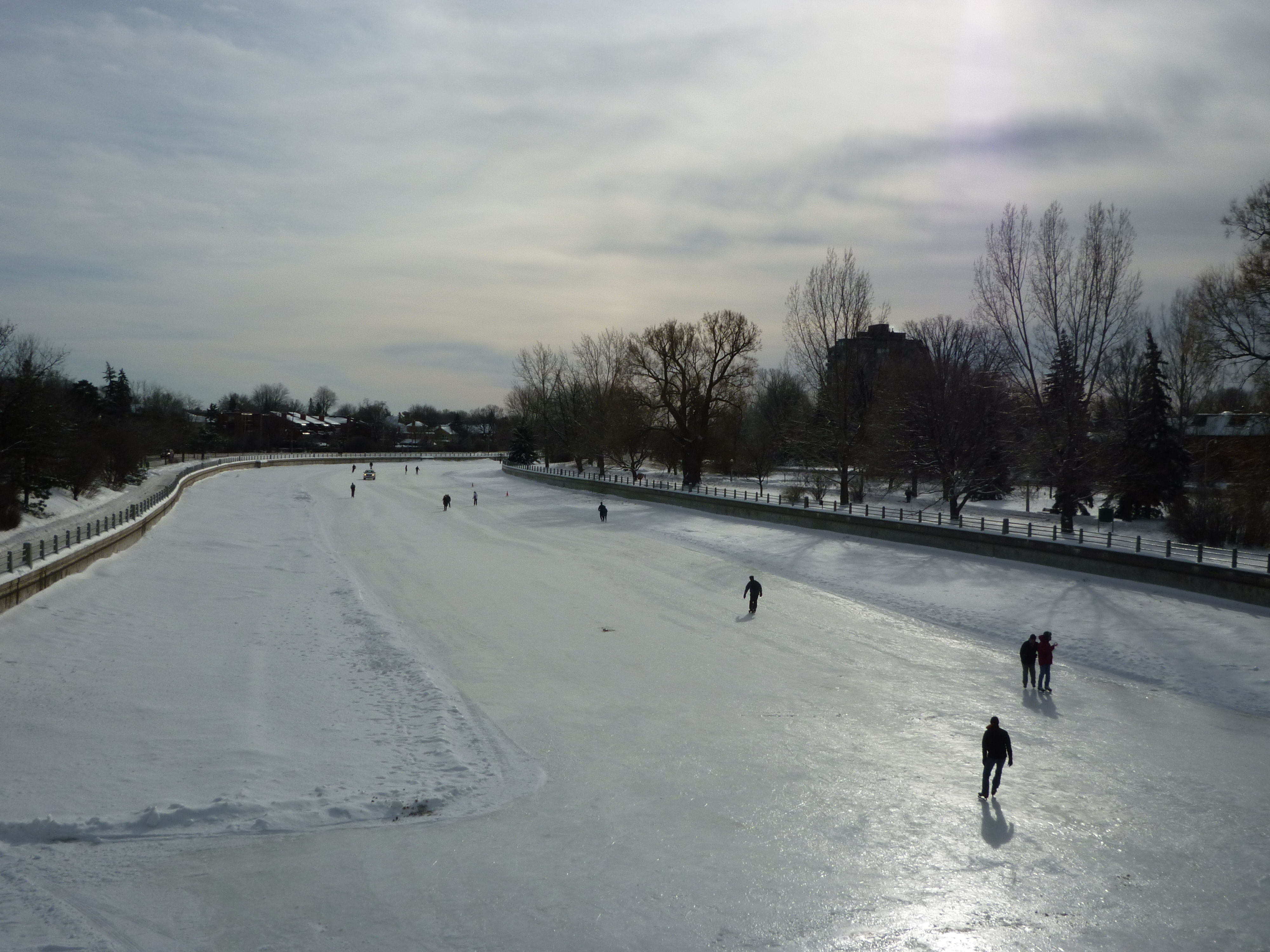 The Rideau Canal Skateway, facing south from Pretoria Bridge